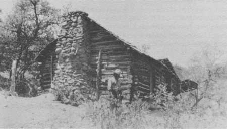 Power Cabin — near Power's Mine in the Galiuro Wilderness area of the Coronado National Forest in the US state of Arizona. Site of the Power Brothers Shootout, in which four men were killed, leading to the largest manhunt in Arizona state history. On the National_Register_of_Historic_Places_in_Graham_County.